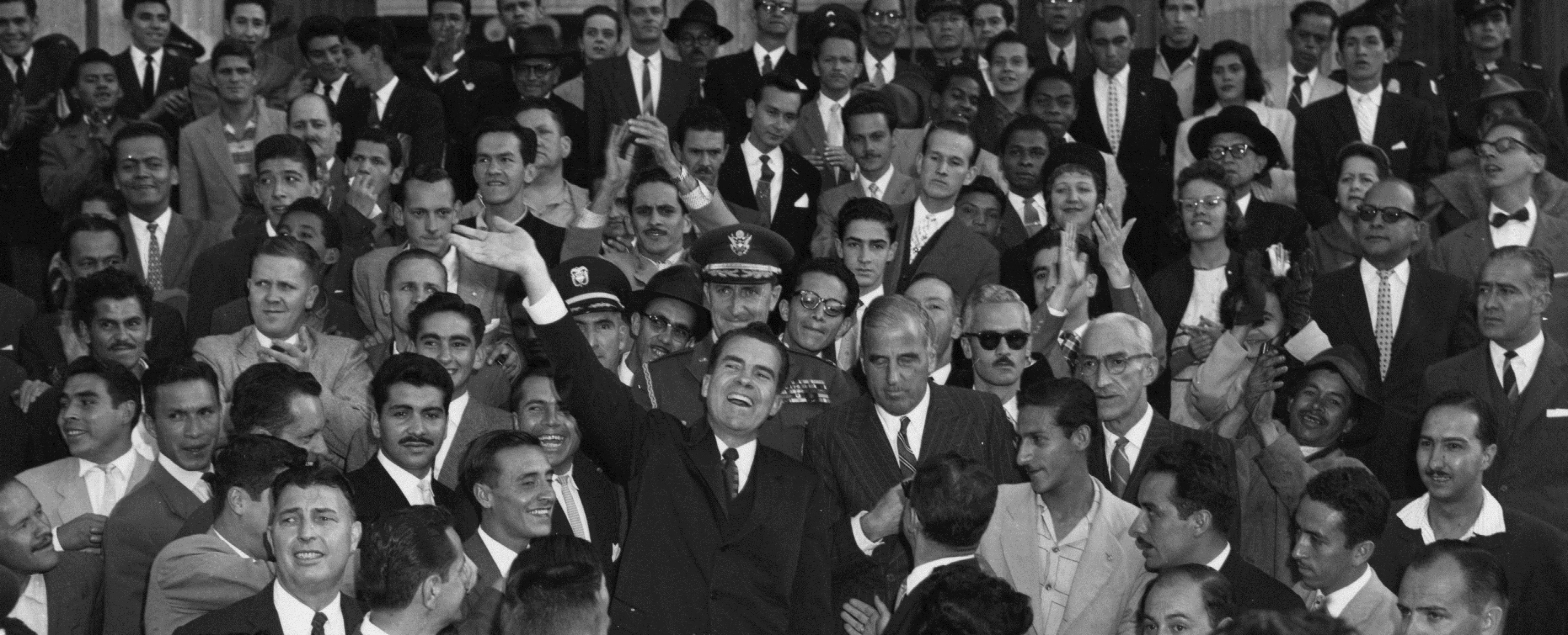 1958 - Richard Nixon waves while surrounded by a street crowd in Bogota, Colombia